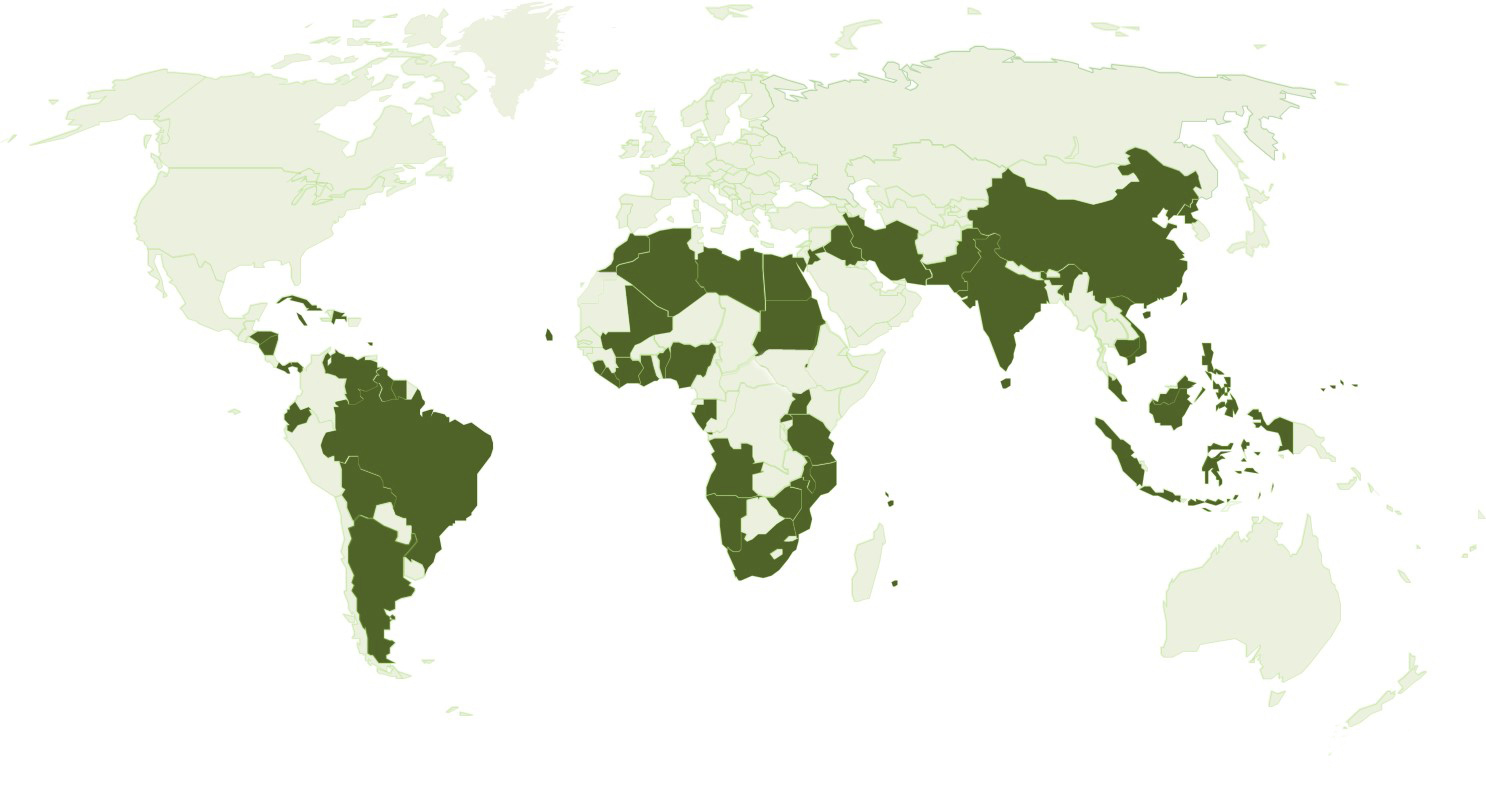 Update South Centre Map